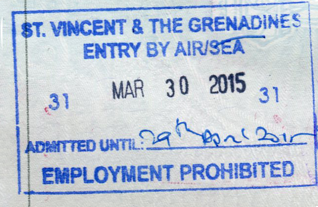 Saint Vincent and the Grenadines tourist entry stamp 2015